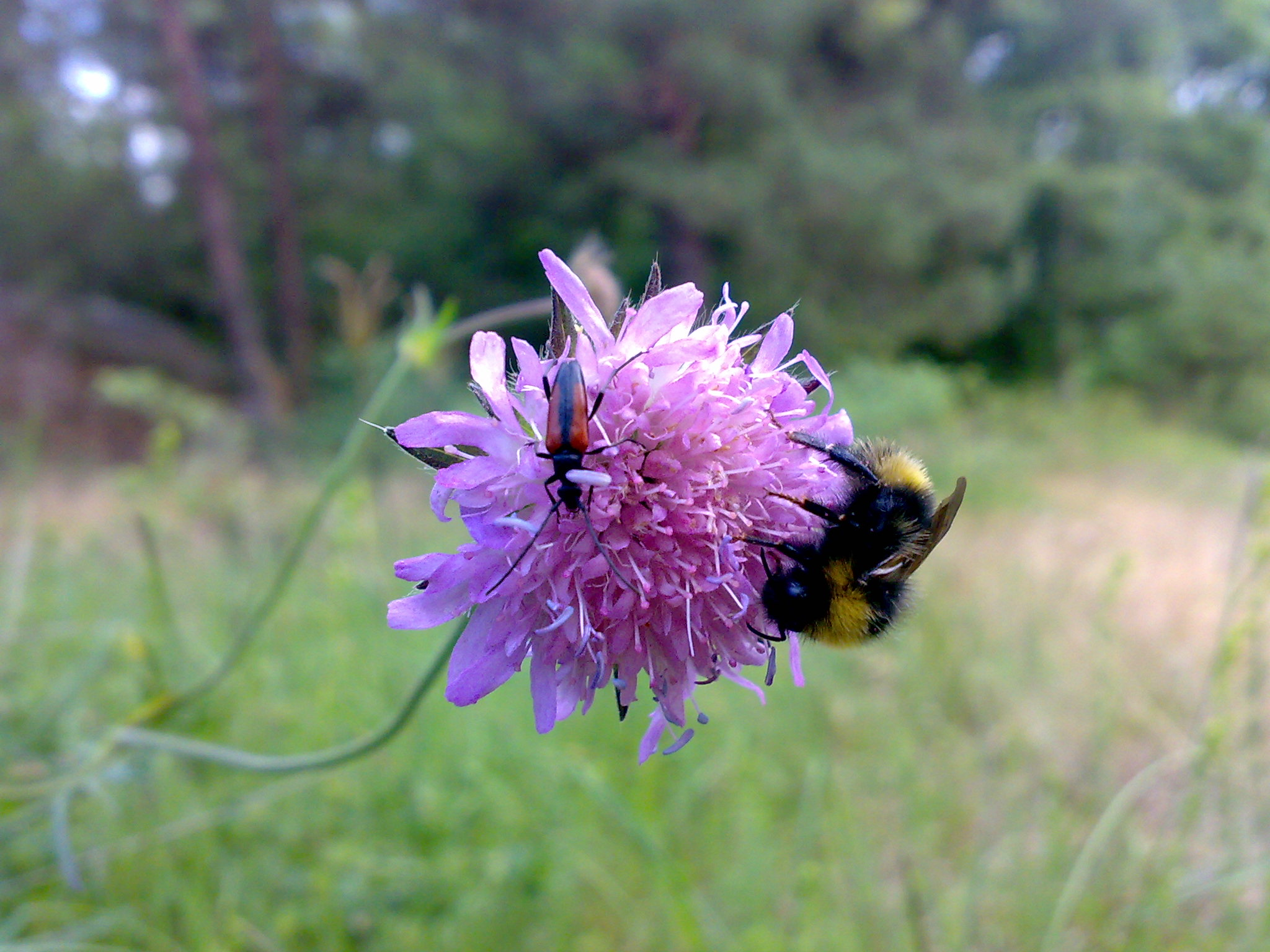 Knautia arvensis